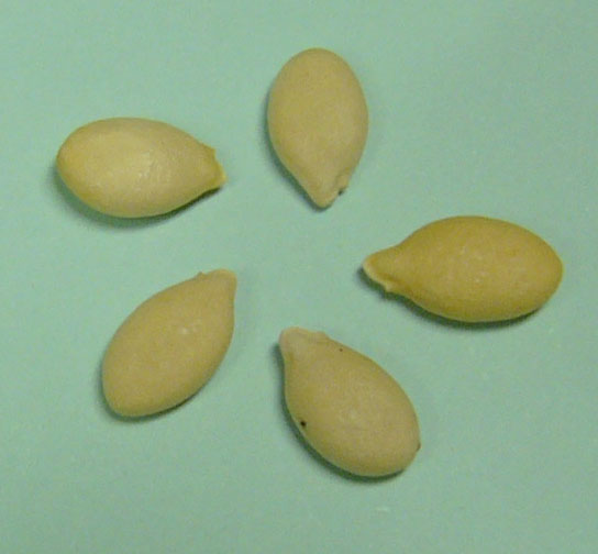 Seeds of winter melon. Each seed is about 3/4 cm long. Photo taken in Hong Kong in 2007.